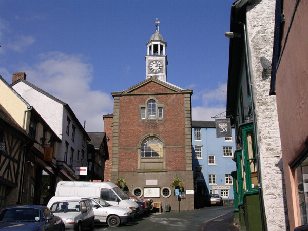 Bishops Castle. This is the town hall on the steep hill in the Shropshire town of Bishops Castle.